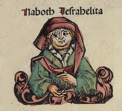 Woodcut from the Nuremberg Chronicle